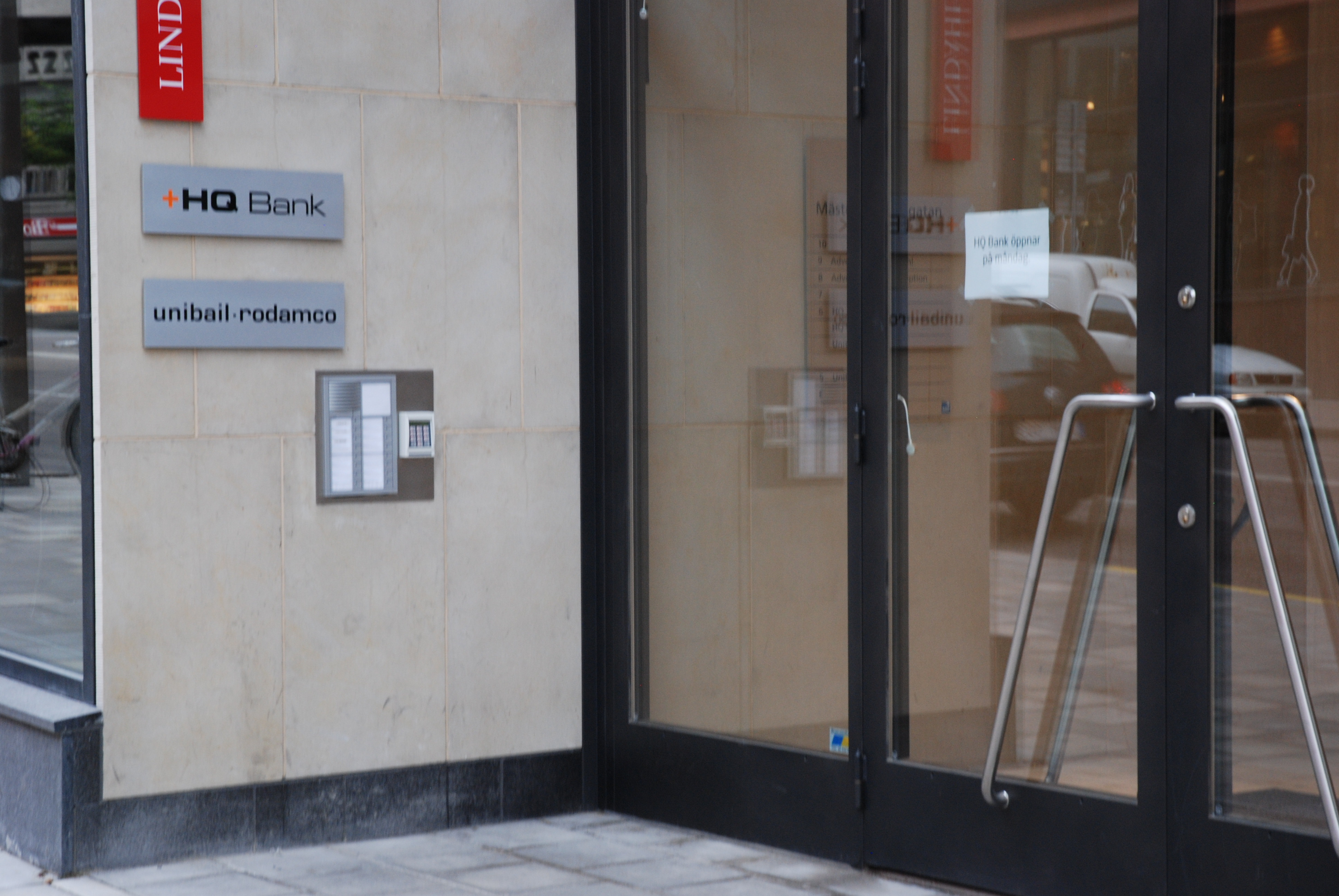 HQ Bank Head Quarters Regeringsgatan/Mäster Samuelsgatan, Stockholm Sweden. Sweden. Entrance door with sign "HQ Bank will open on Monday" during the crisis.